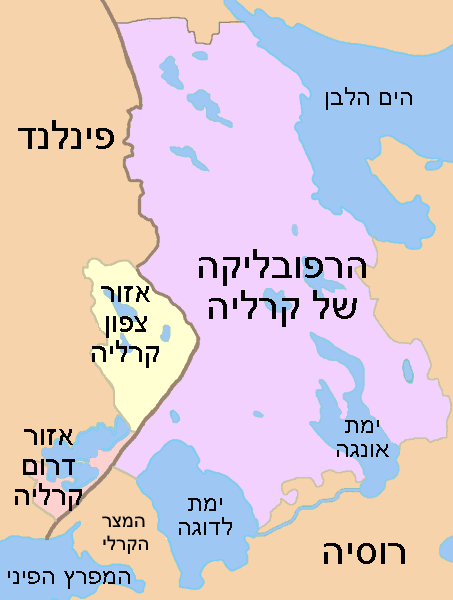 Blank map of the Karelia Region and its subregions in eastern Finland and northwestern Russia, with present borders.